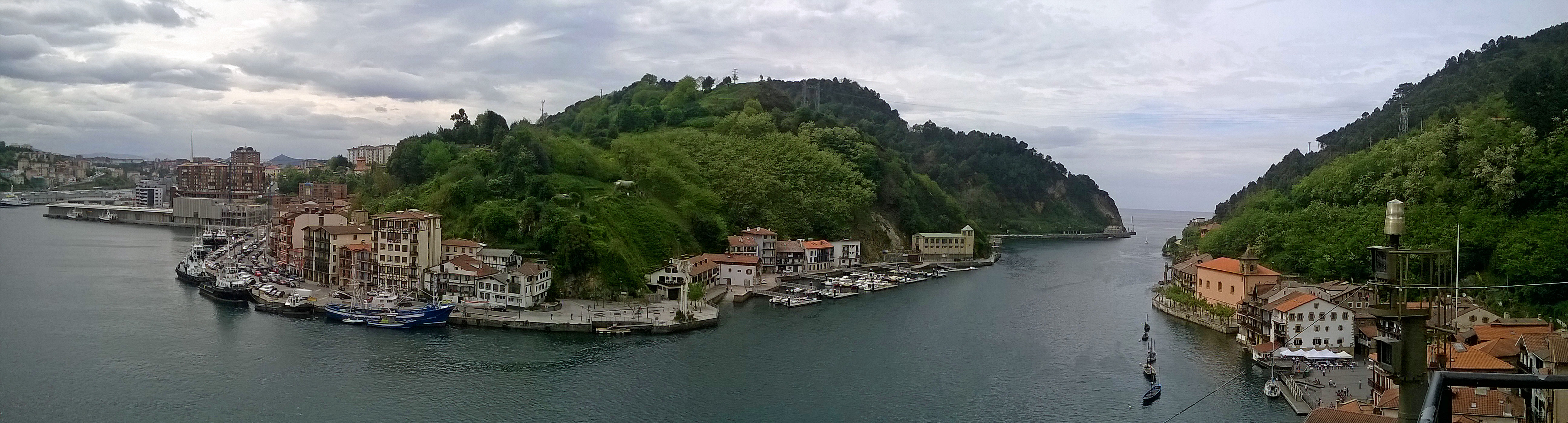 Pasai San Pedro and Donibane, Gipuzkoa, Basque Country